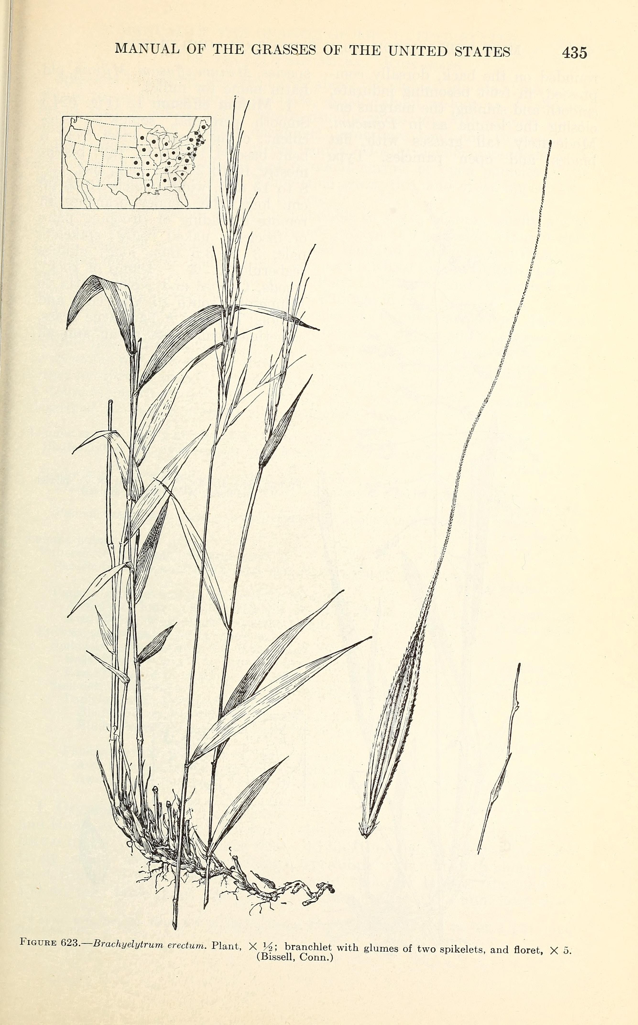 Manual of the grasses of the United States /